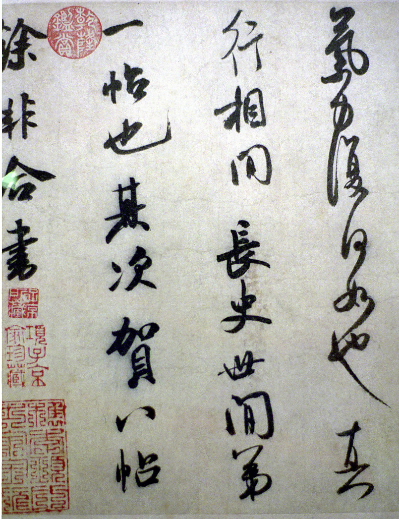 Mi Fei Chan Chi Ming Tie, detail, ink on paper, 11th century, China, in Tokyo National Museum